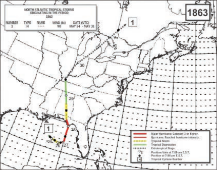 Track of Hurricane "Amanda" in 1863